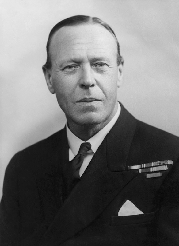 Portrait of Admiral Sir Clement Moody